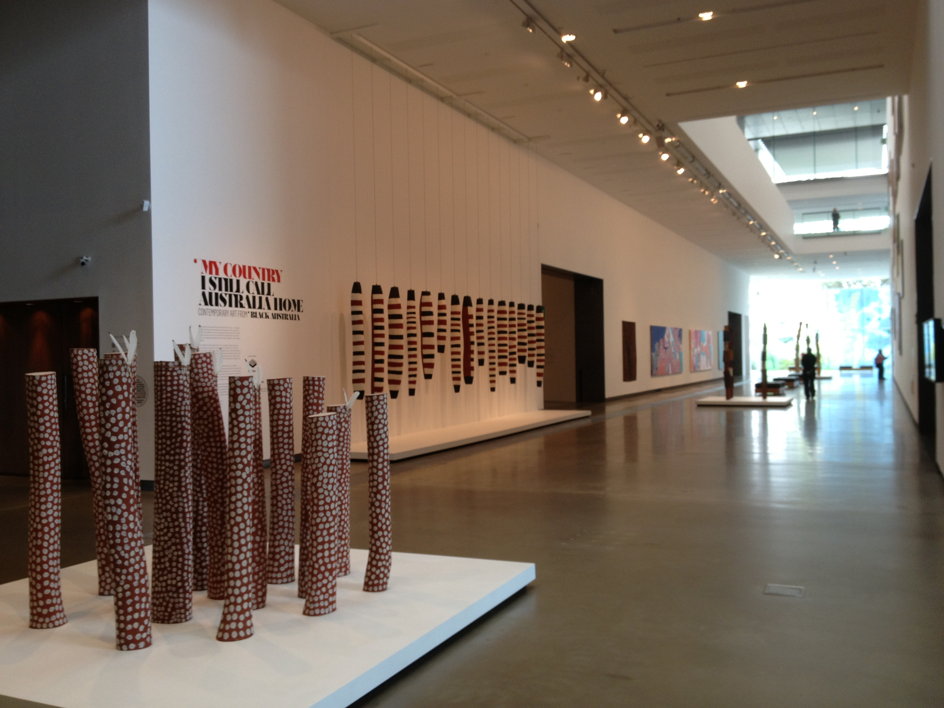 GOMA ground floor foyer